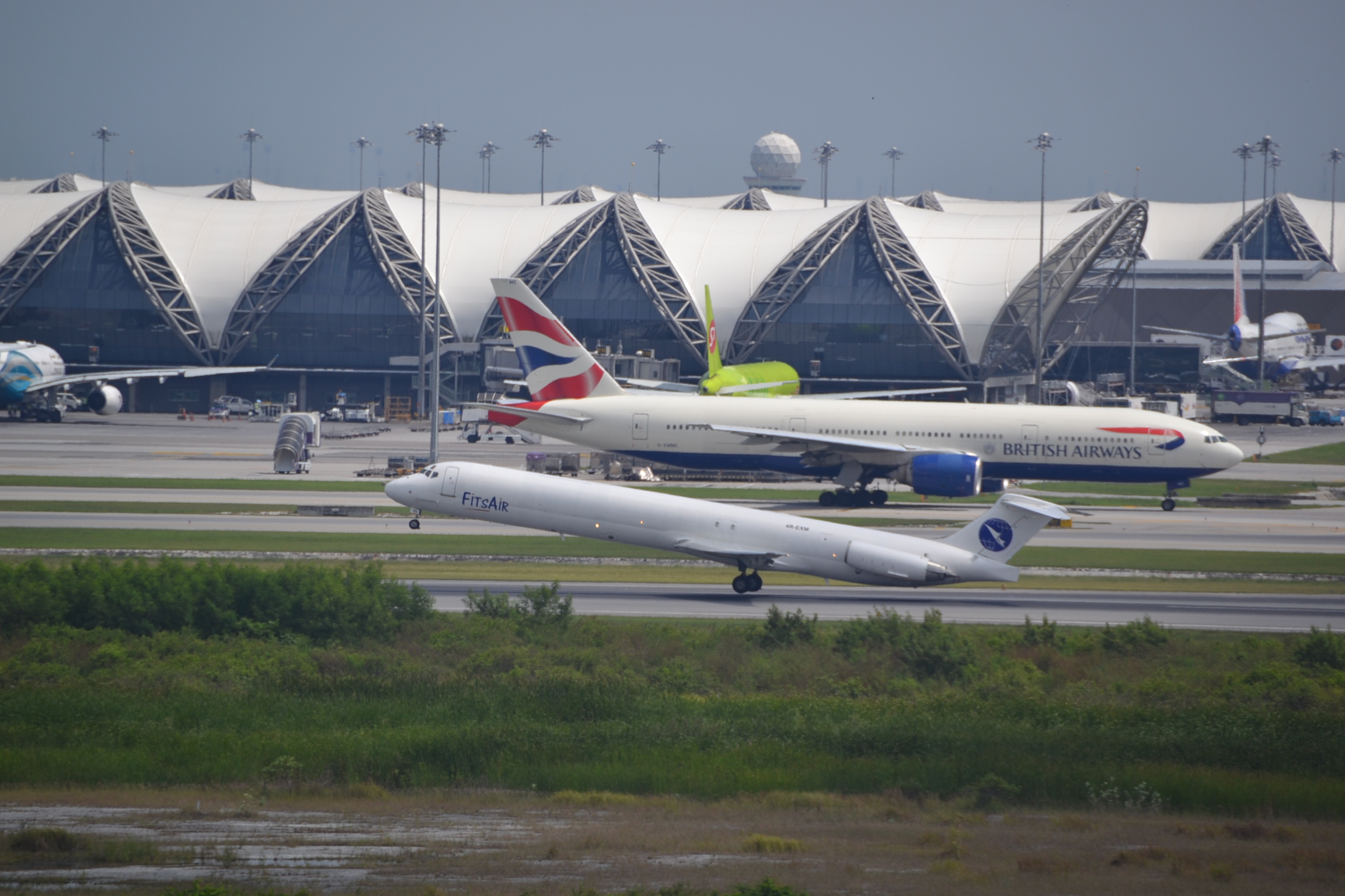 Douglas MD82(SF) of Fits Aviation departing rwy.01L at Bangkok-BKK, 30/10/14.